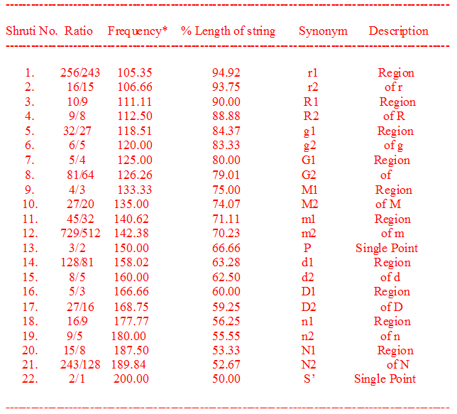 Ratios frequencies percentage length of the string where 22 Shrutis are played